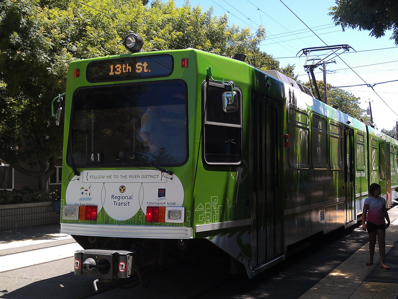 Green Line Special Train